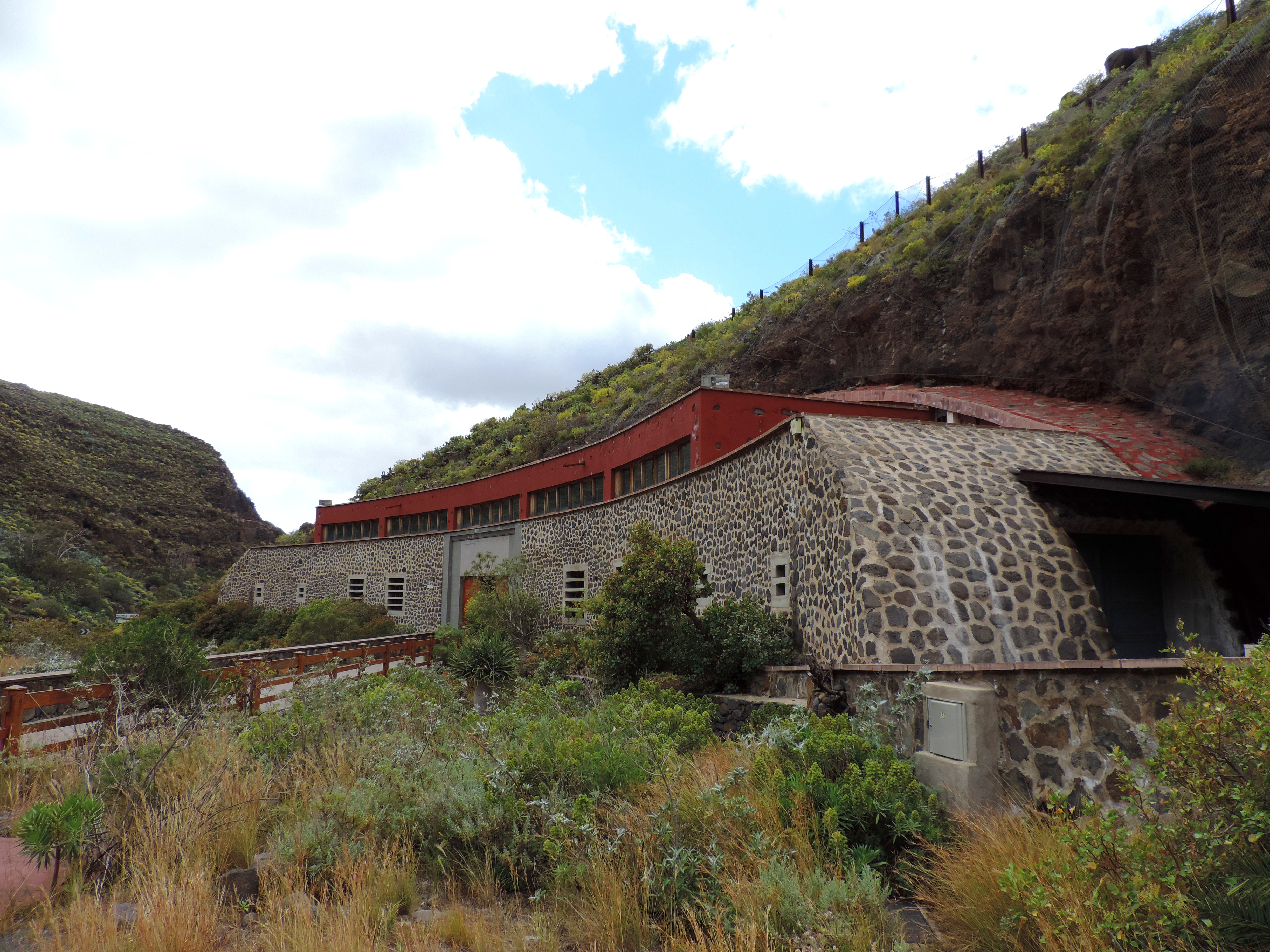 Museo de Guayadeque (Archaeological Visitors Information Centre)